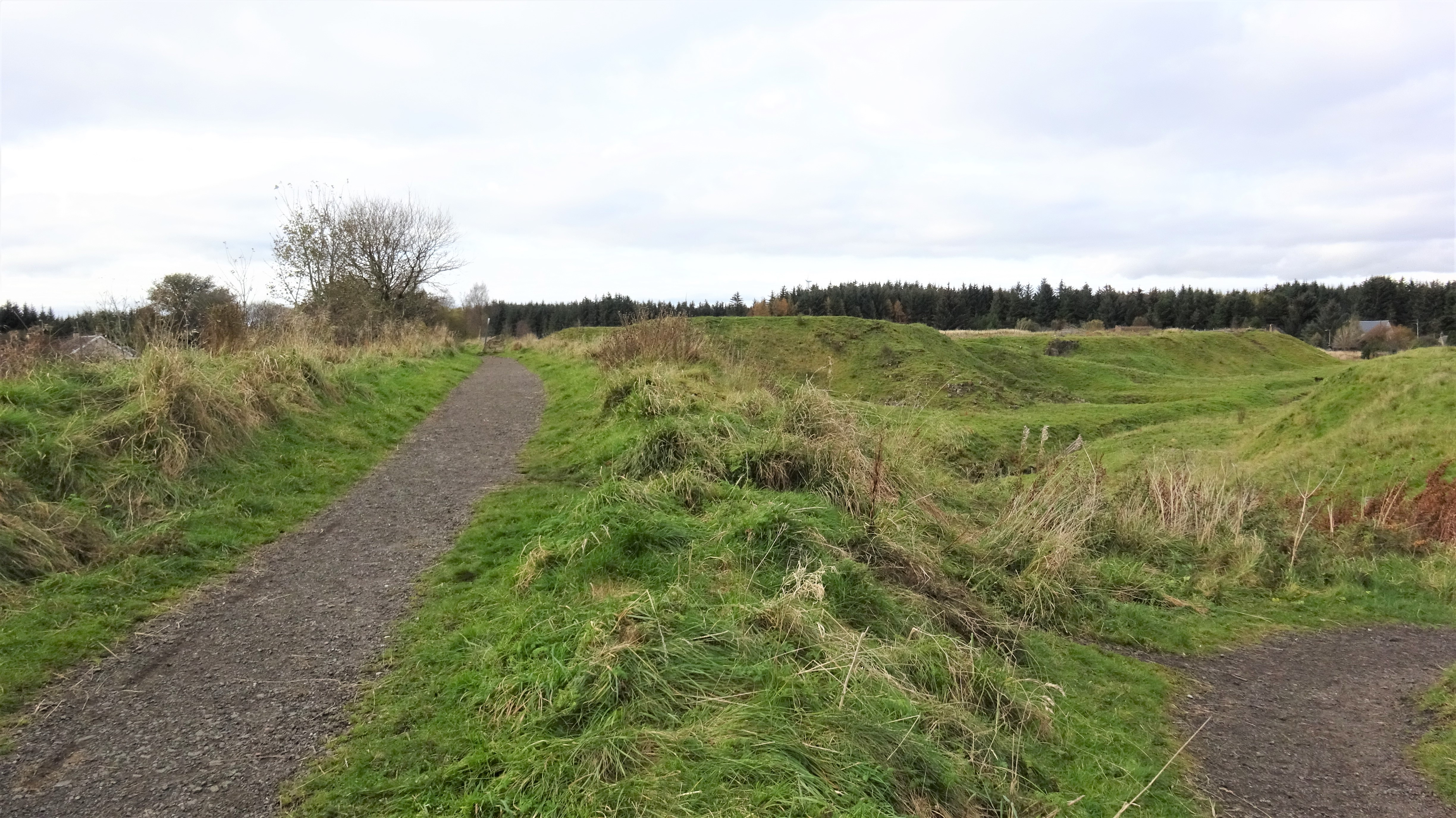 Old trackbed and railway embankment at the Wilsontown Ironworks Site, Lanarkshire, Scotland.